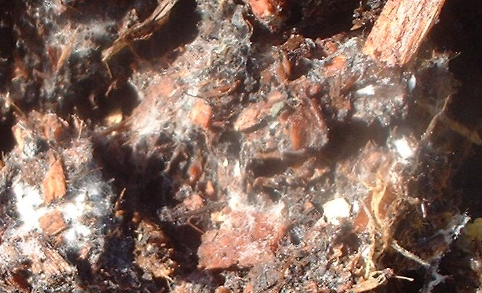 White fungal-like appearance of the Actinobacteria soil organism on high-lignan materials in compost